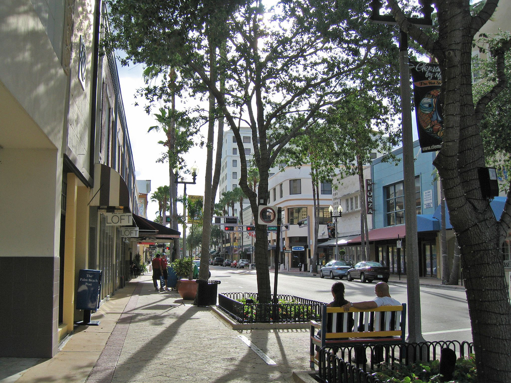 Clematis Street Photo by eighties1980